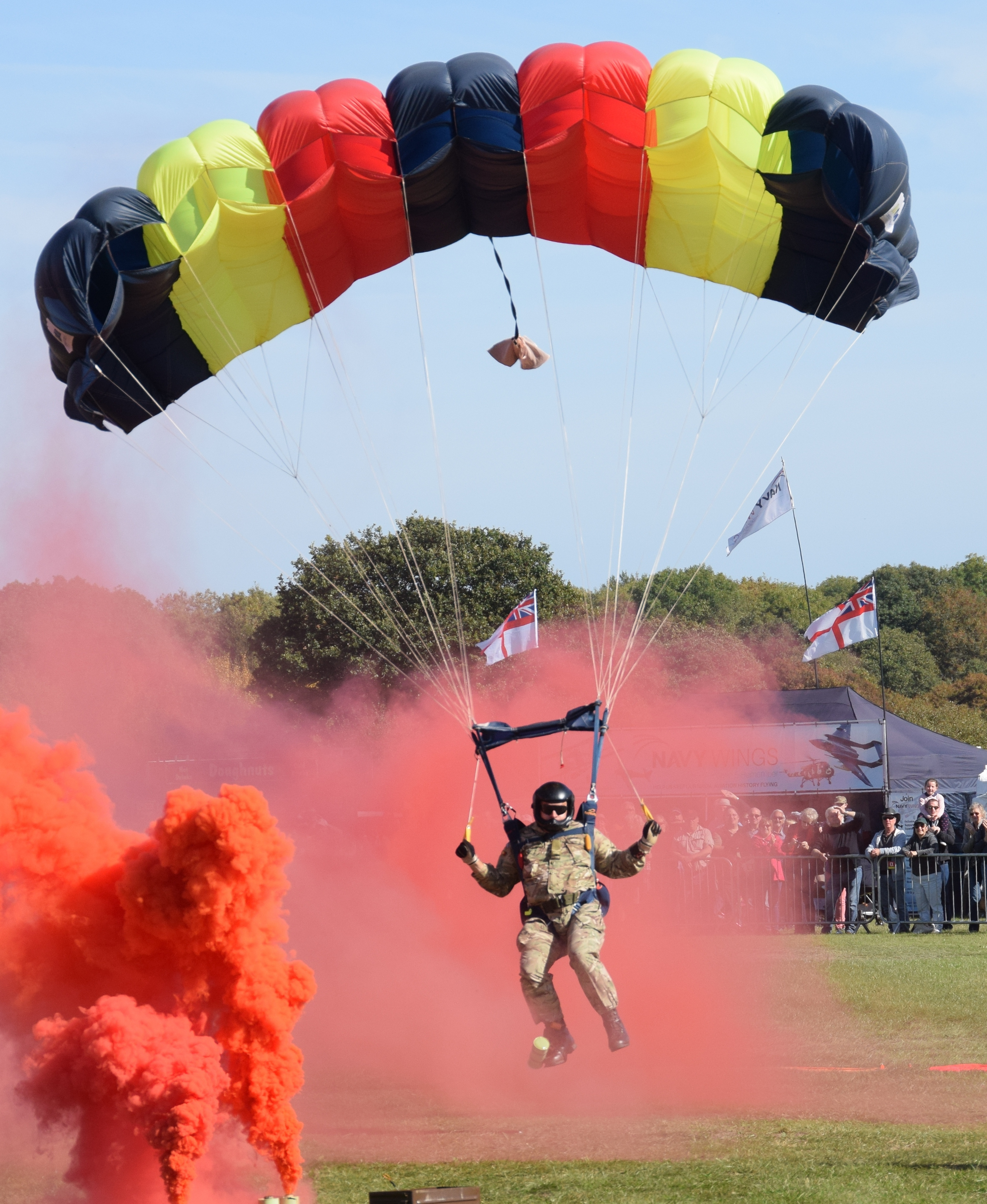 A parachutist of the UK REME Lightning Bolts Army Parachute Display Team, with red smoke coming from a container on his leg and from containers in the foreground, lands at the 2018 Cotswold Airport Revival Festival, Gloucestershire, England.